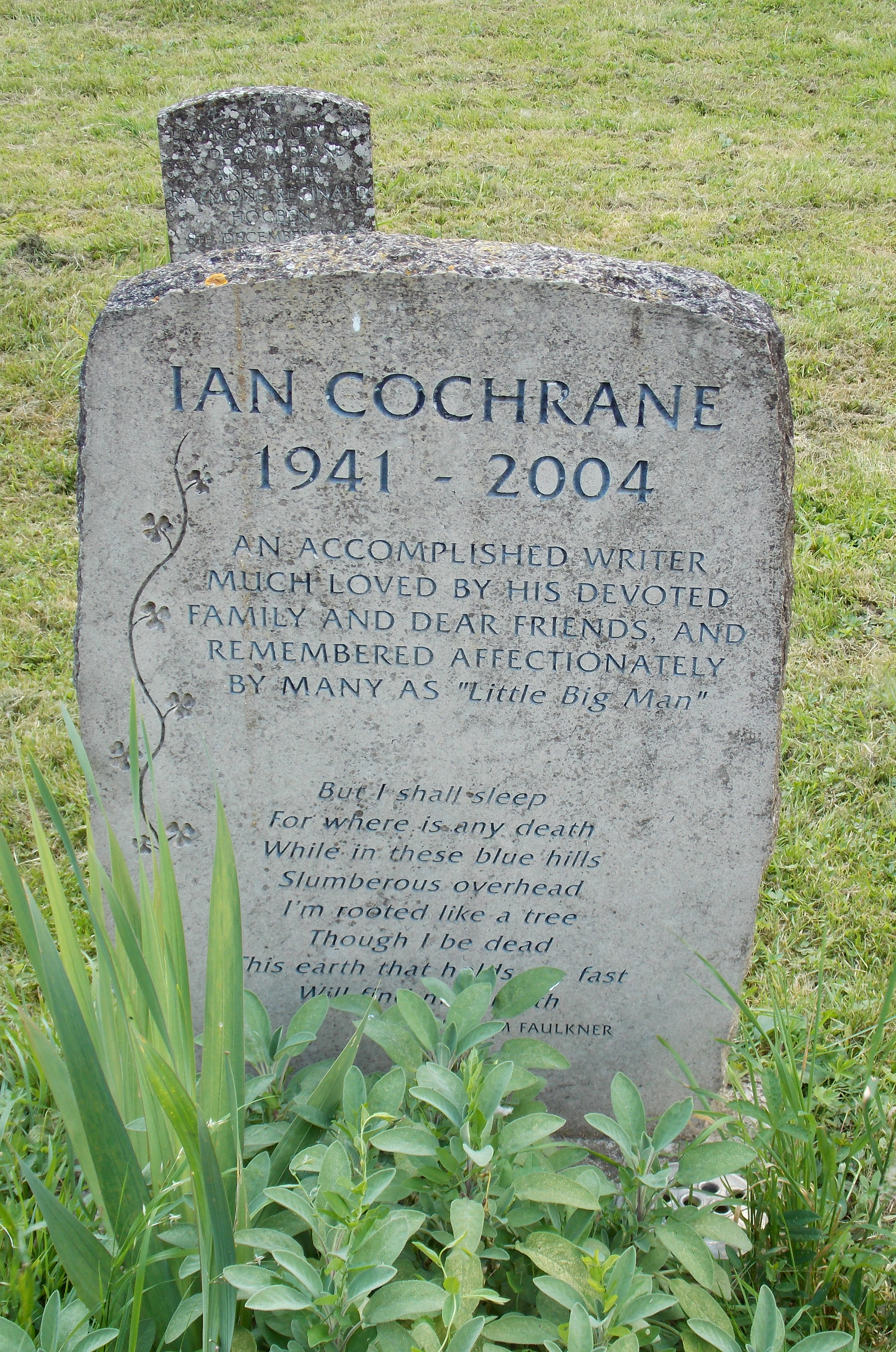 Headstone to Ian Cochrane (1941-2004) in the churchyard of the Church of the Holy Cross, Goodnestone, near Dover, Kent, England.